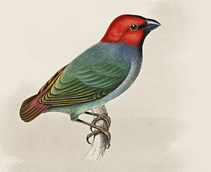 Erythrura cyanovirens cropped from Titian Peale's plate